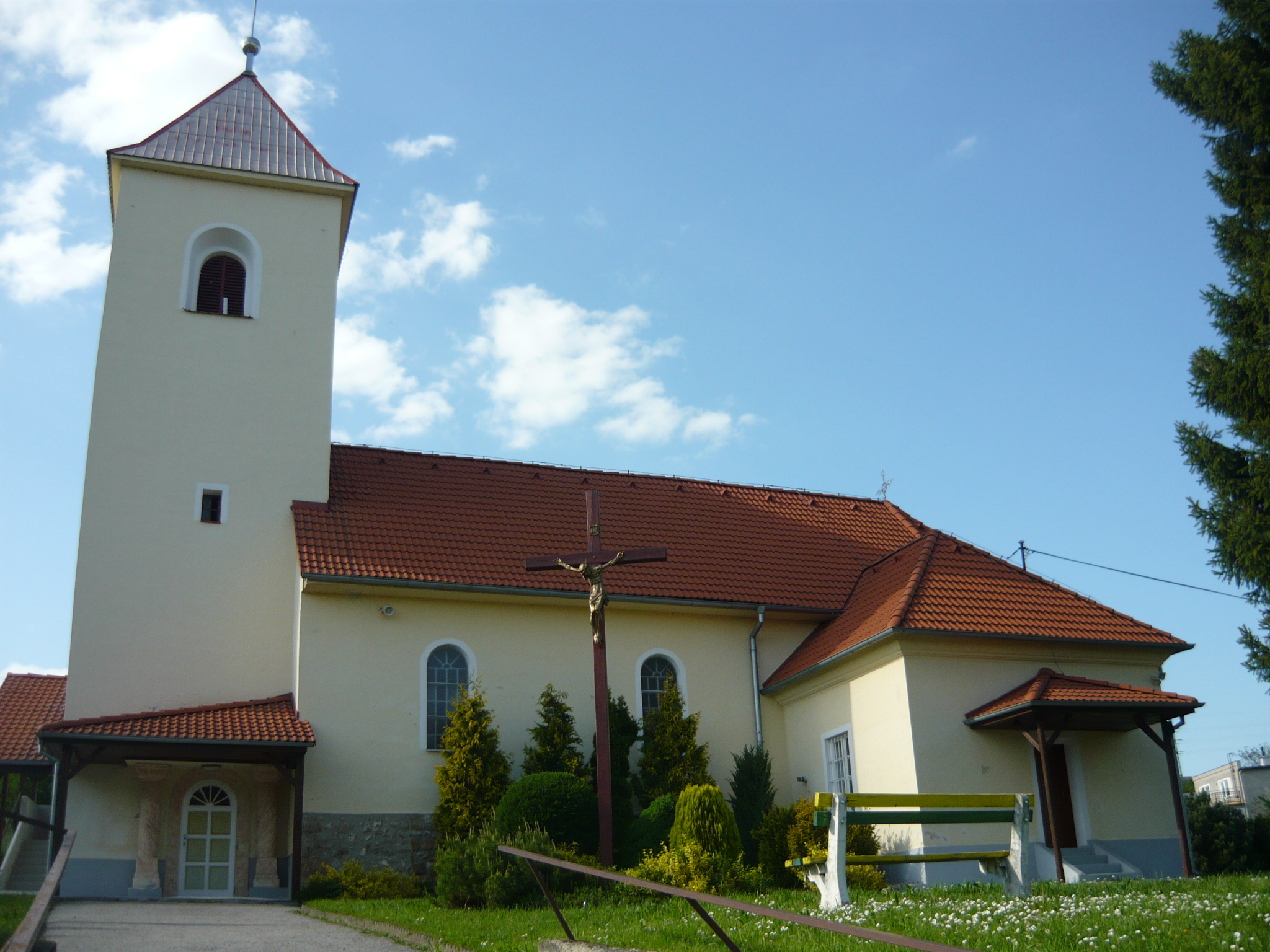 Church in Malé Kršteňany, Slovakia.